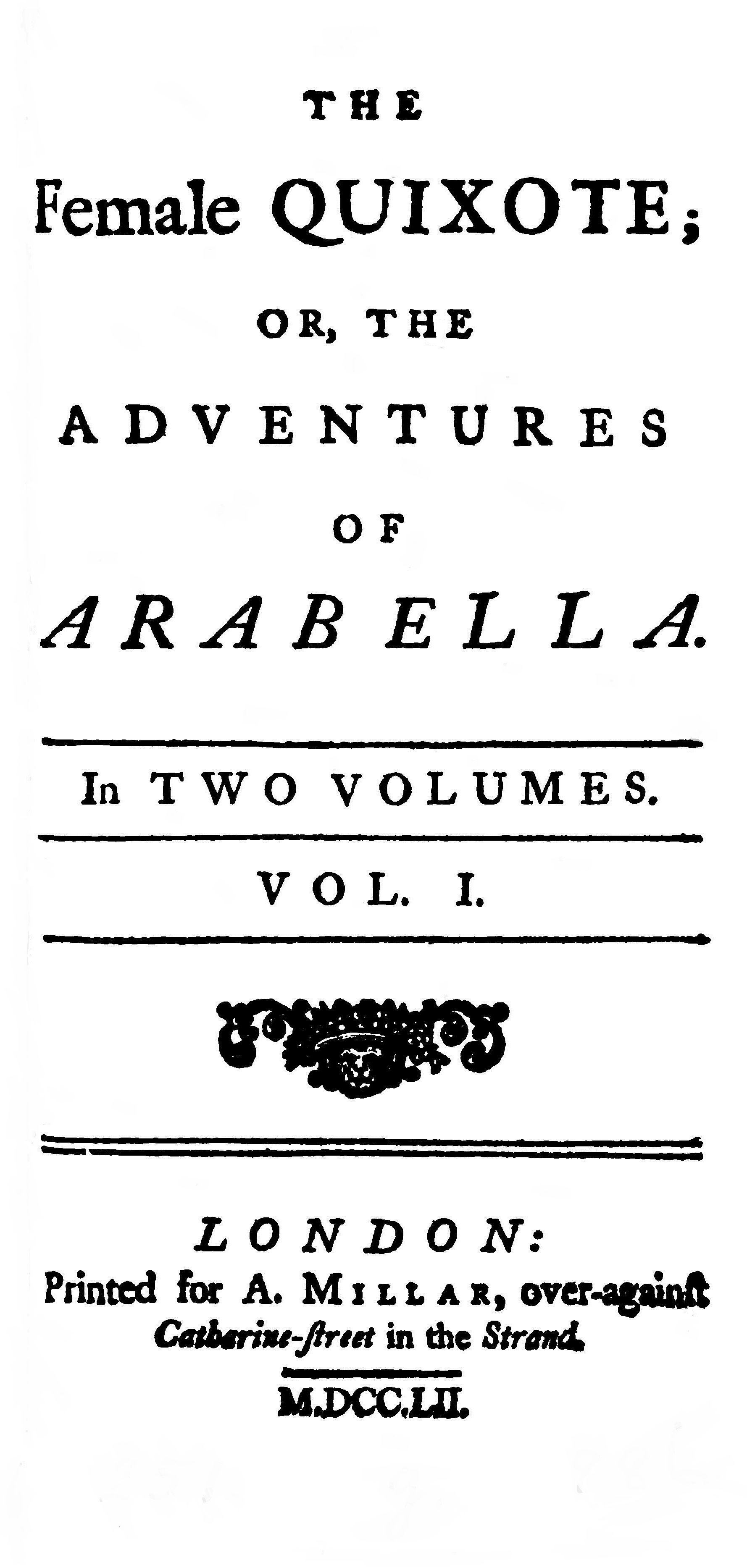 The Female Quixote 1st edition title page